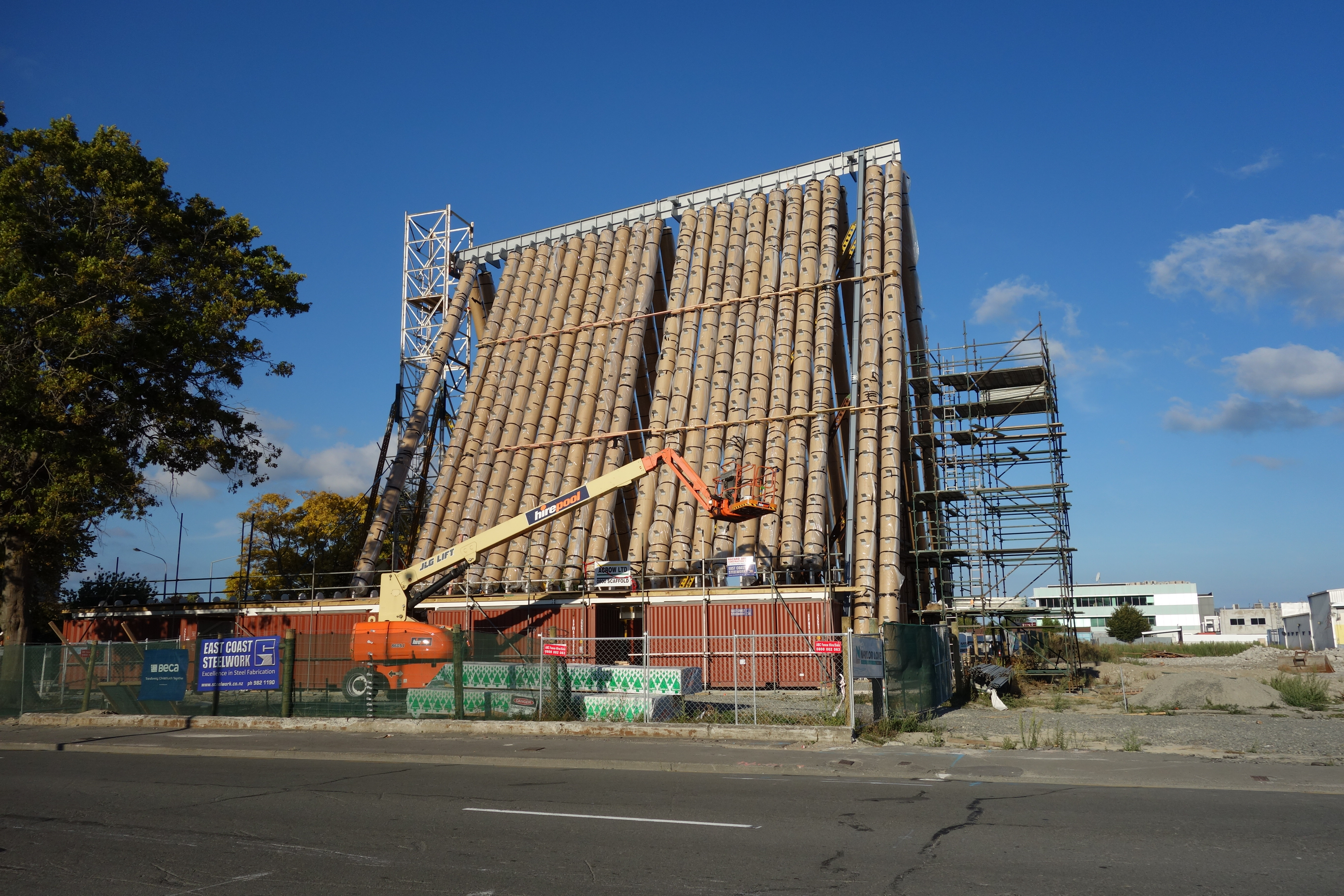 Construction of Cardboard Cathedral